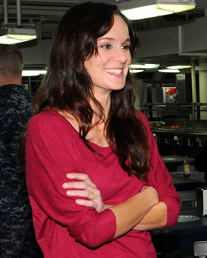 YOKOSUKA, Japan (Dec. 13, 2011) Sarah Wayne Callies, a television and movie actress who recently starred as Lori Grimes in the Golden Globe nominated AMC series The Walking Dead, meets with Sailors aboard the aircraft carrier USS George Washington (CVN 73). George Washington is the Navy's only full-time forward-deployed aircraft carrier ensuring security and stability across the western Pacific Ocean. (U.S. Navy photo by Mass Communication Specialist 3rd Class Justin E. Yarborough/Released)